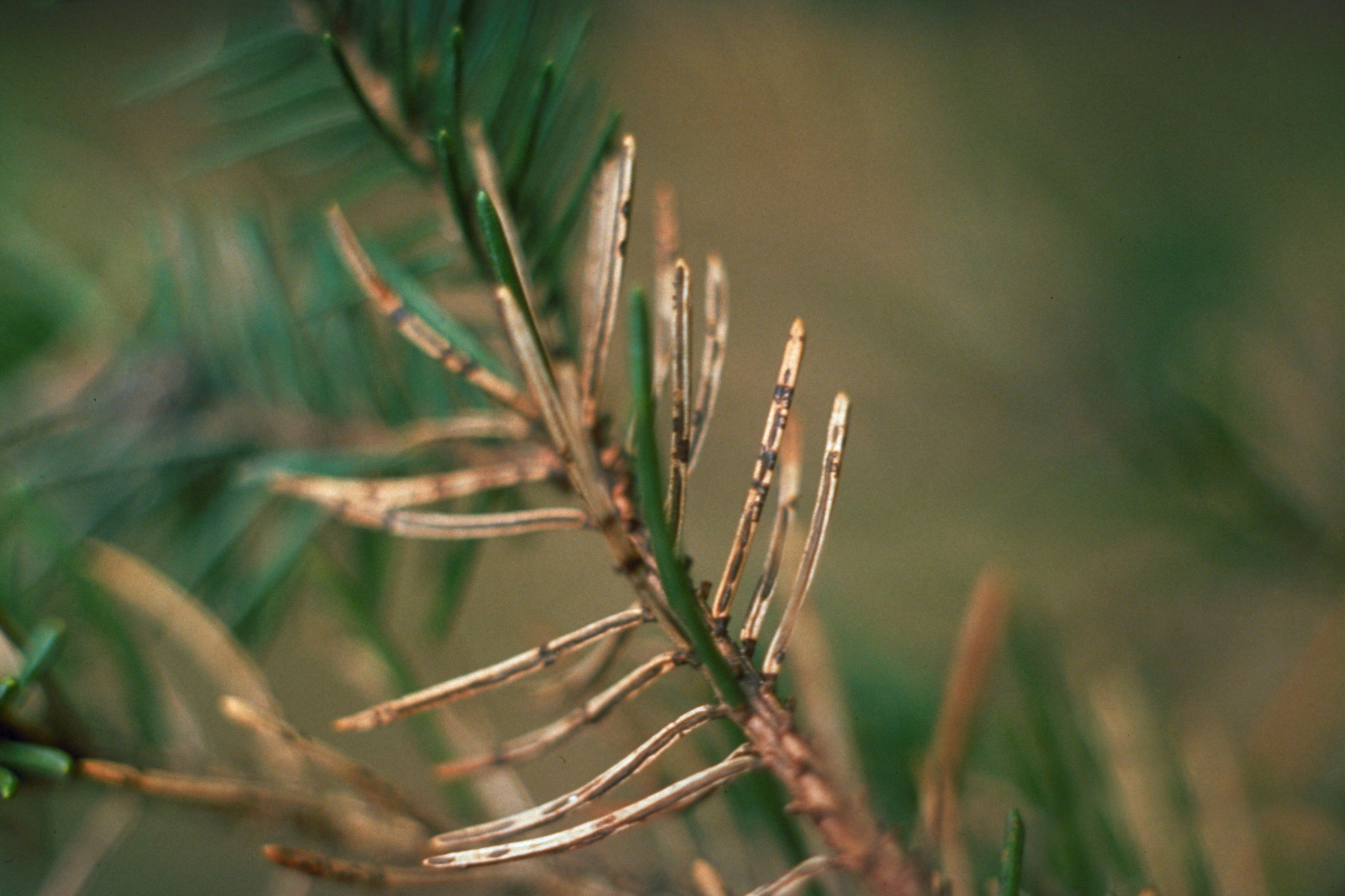 Spruce needle cast/blight Lirula macrospora (R.Hartig) Darker. Host: spruce (Picea A.Dietr. spp.) Descriptor: Fruiting Bodies Description: on needles